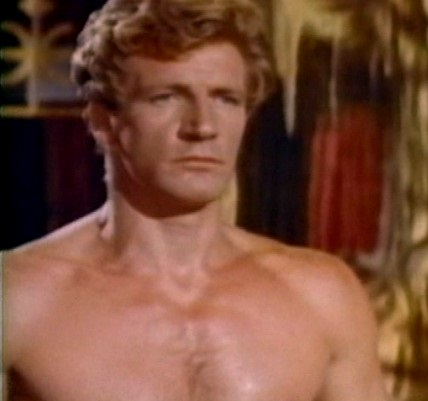 Public domain photograph of British actor Joe Robinson